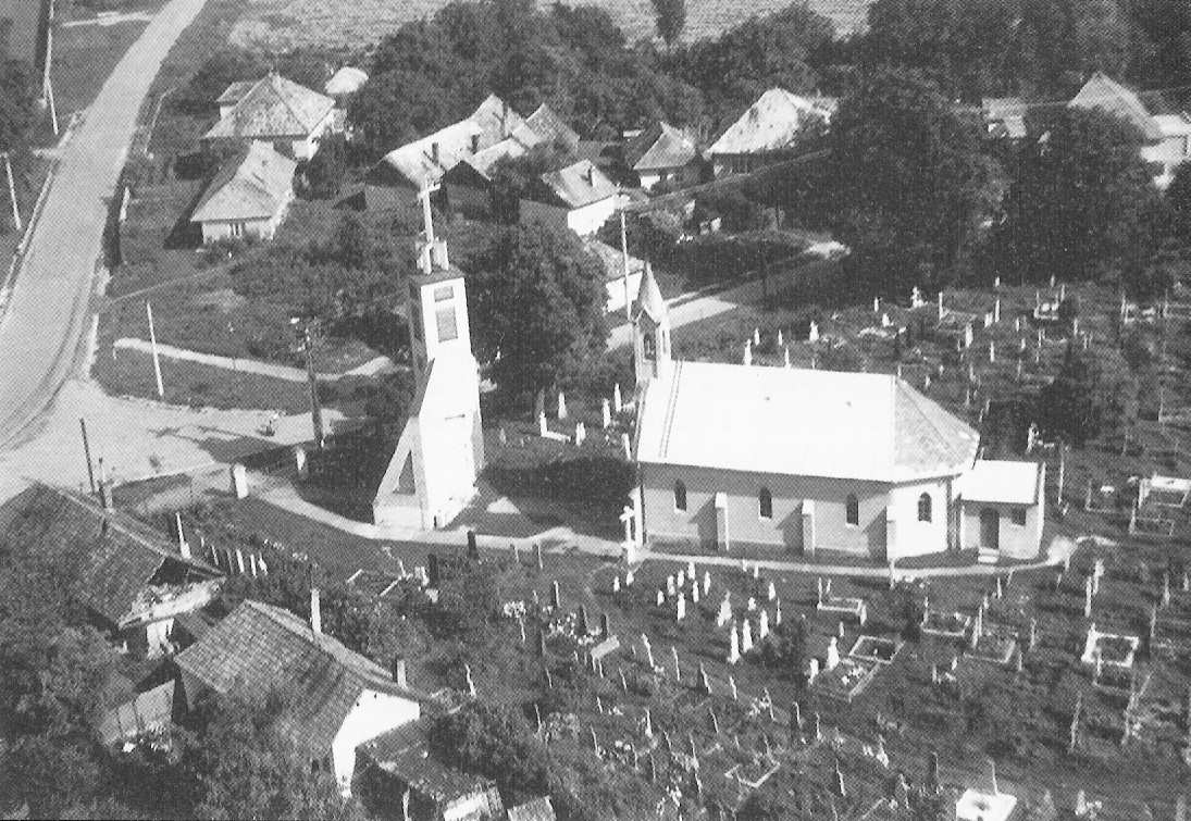 Church of St. Martin in Nitriansky Hrádok after the build of the new tower (1967), quarter of Šurany, Slovakia.